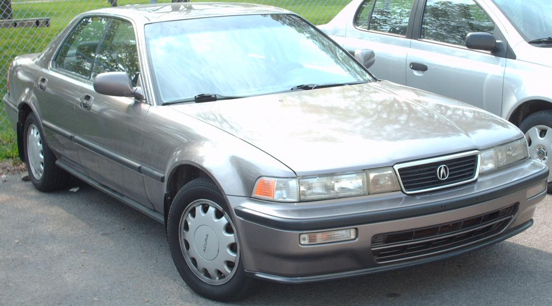 1992-1994 Acura Vigor photographed in Montreal, Quebec, Canada.